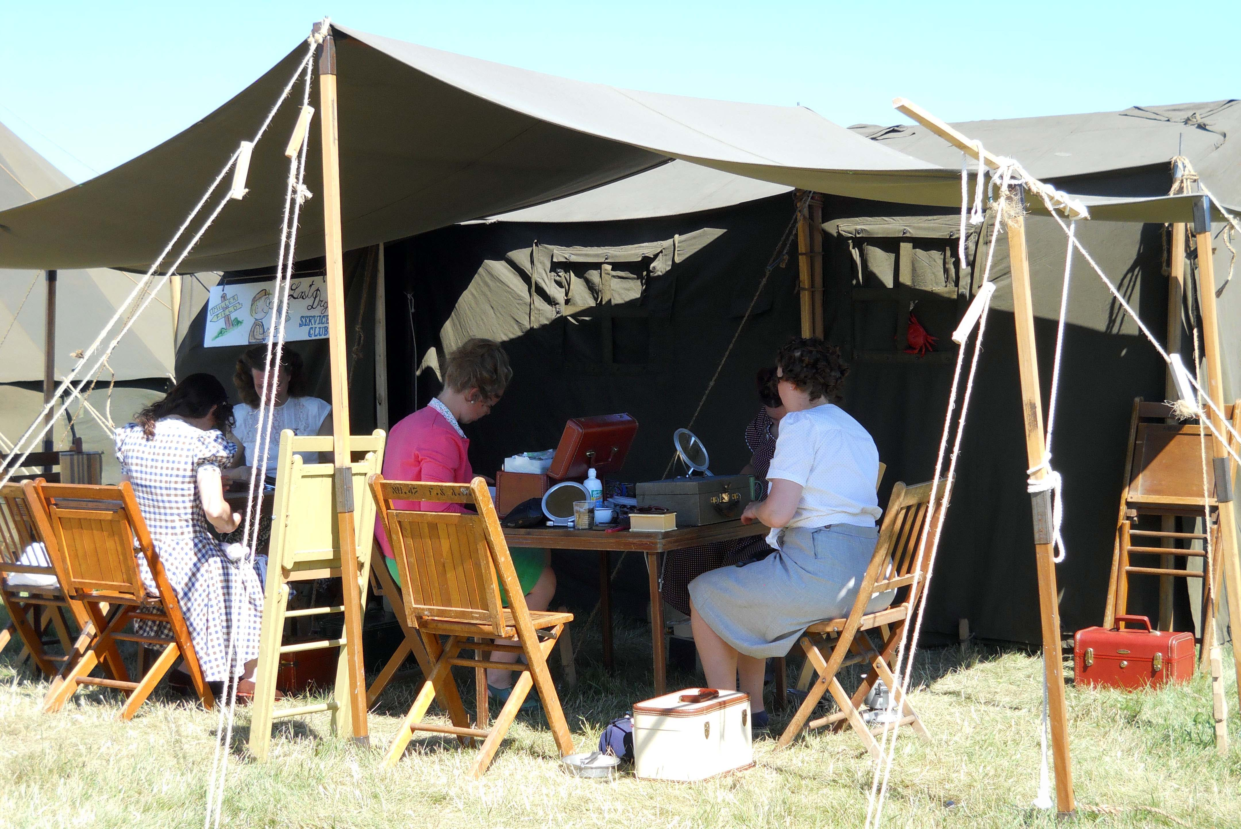 USO Entertainers getting ready to perform at EAA Oshkosh Airventure, Warbird section, Joe Miller Camp, July 2013. Authentic re-enactment, including the camping and grooming accessories. Taken with their permission.